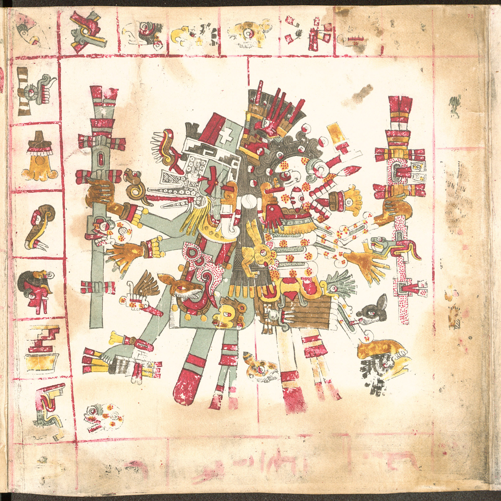 Page 73 of the Codex Borgia.